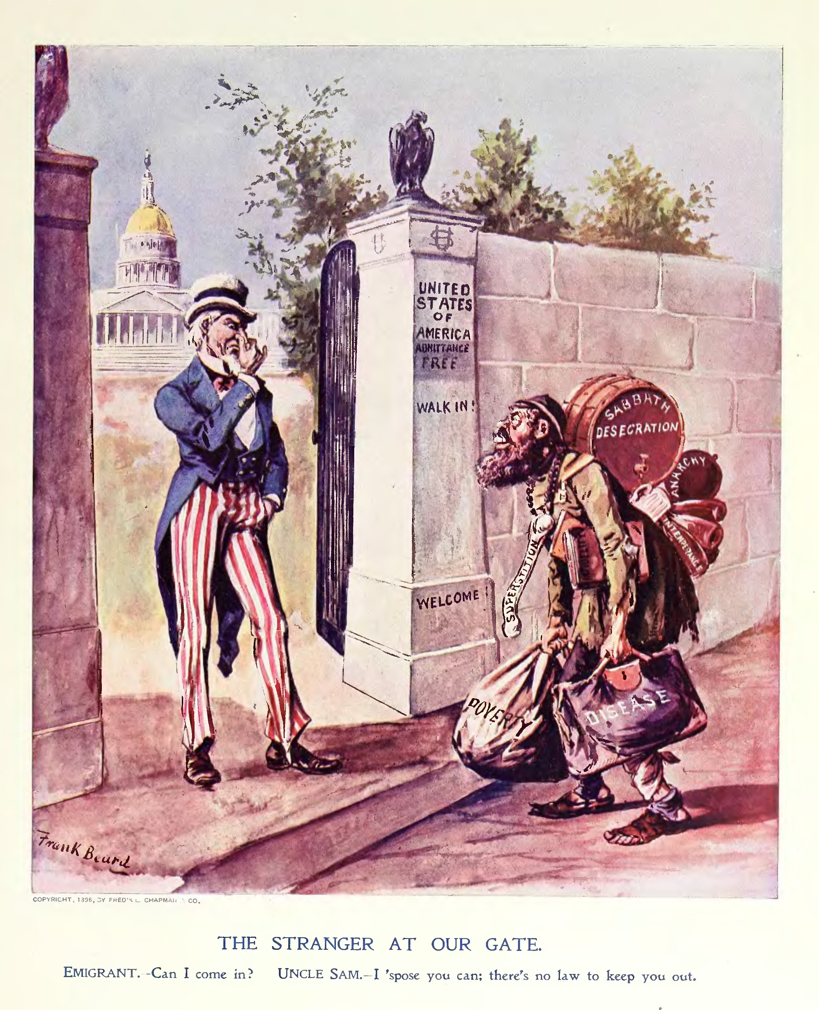 Originally published individually in The Ram's horn